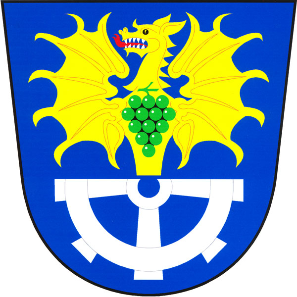 Municipal coat of arms of Trstěnice village, Znojmo District, Czech Republic.